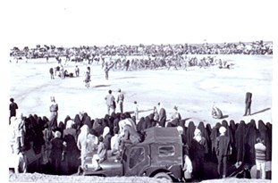 Sheikh Khaz'al ibn Jabir Al kaabi,(18 August 1863?- 24 May 1936), was the ruler of the semi-autonomous Sheikhdom of Khorramshahr